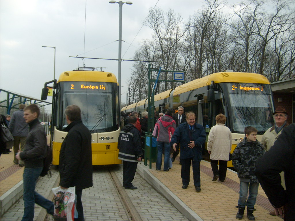 PESA 120Nb type tram